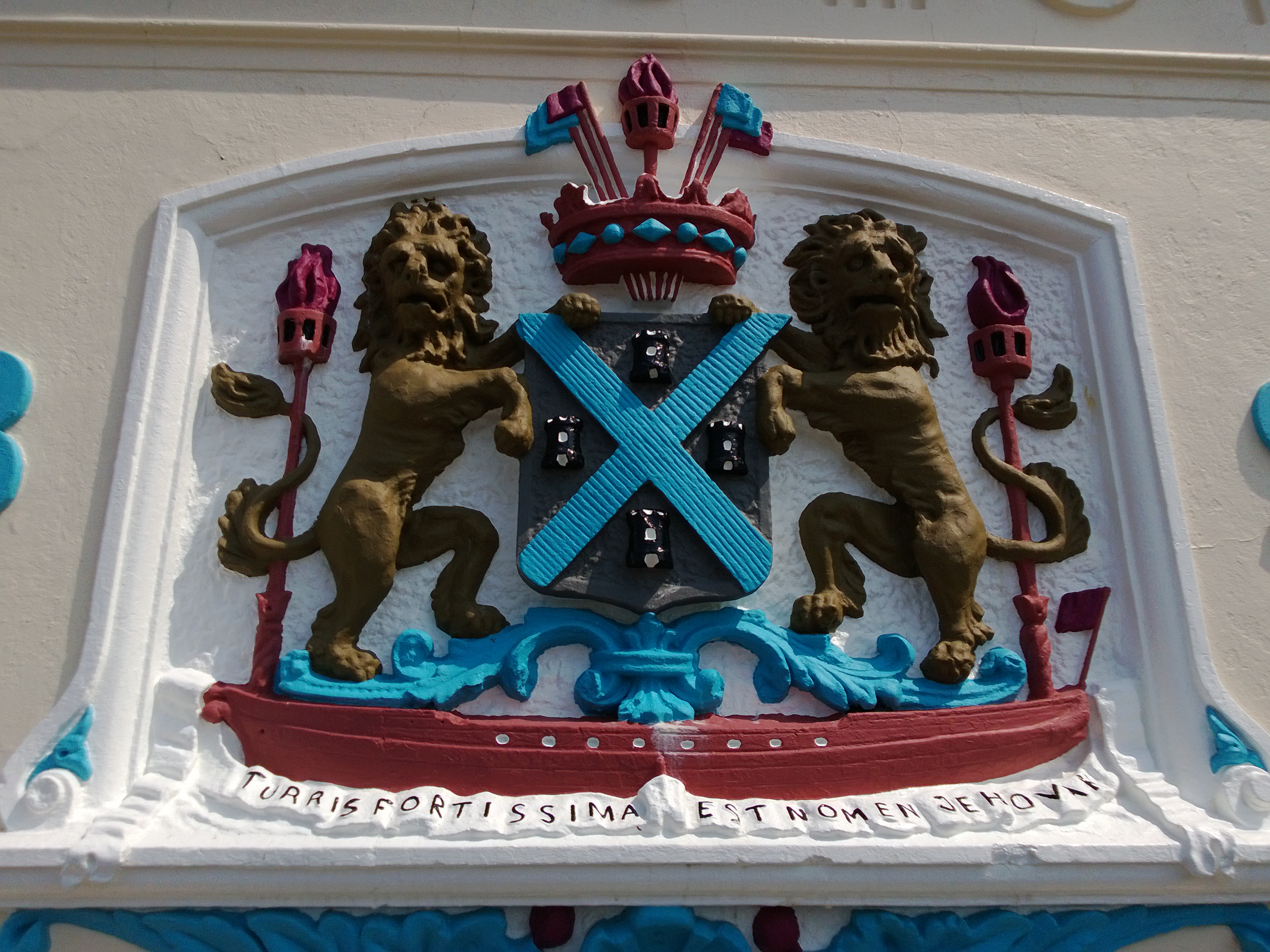 Coat of arms of the city of Plymouth, Devon, England. Should be: Argent, a saltire vert between four towers sable (see: Notitia Parliamentaria: Or, An History of the Counties, Cities, and Boroughs ... By Browne Willis, p.15[1]) here painted incorrectly. The motto "Turris Fortissima est Nomen Jehova" means "The strongest tower is the name of Jehova". (On the façade of the Belvedere)